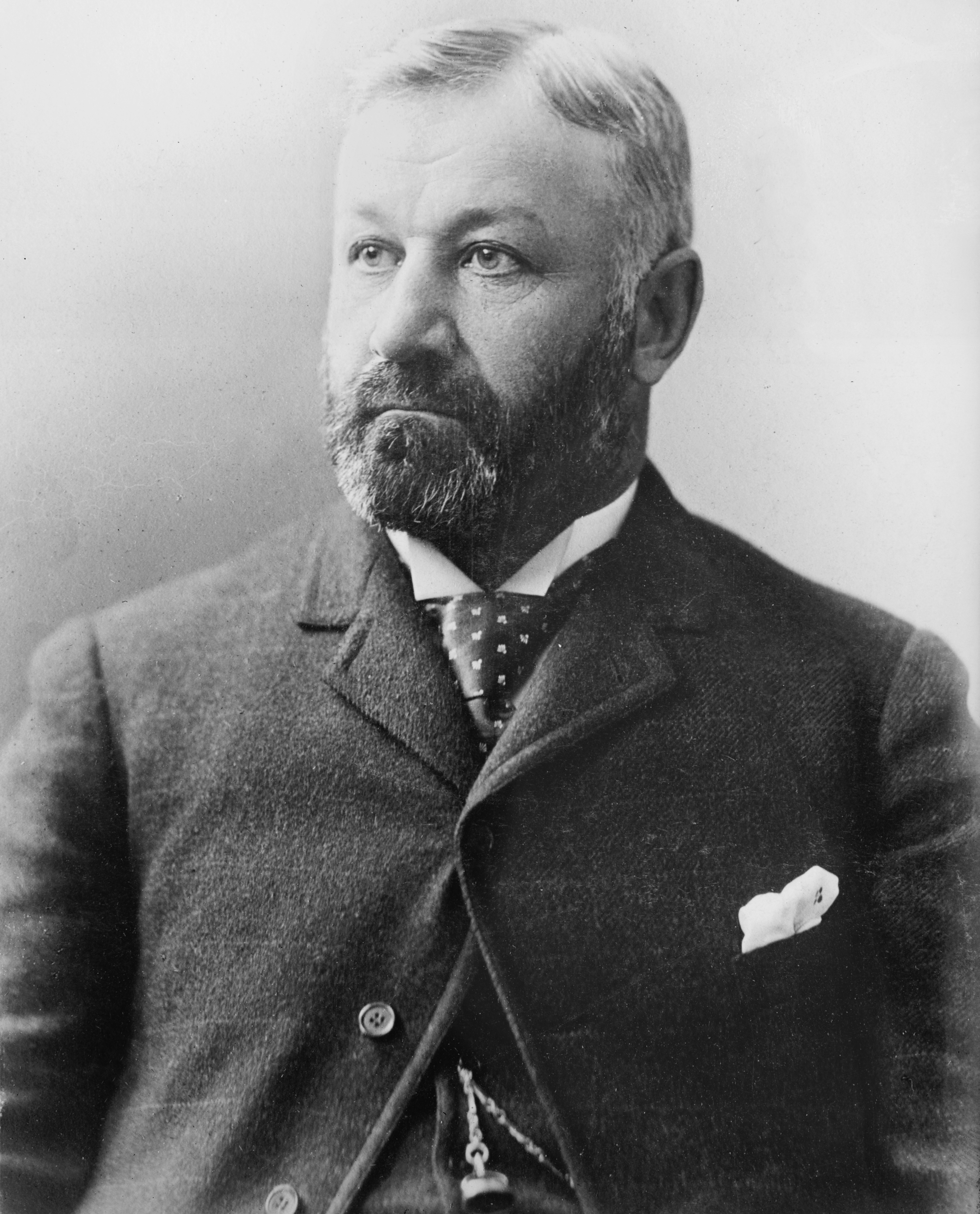 Portrait of Richard Croker.